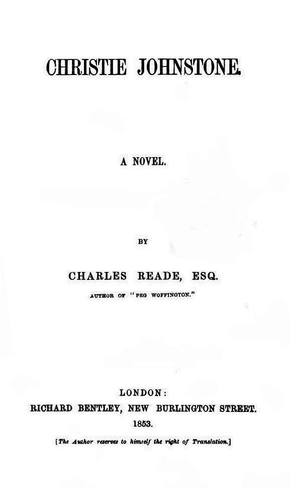 1st ed title pg